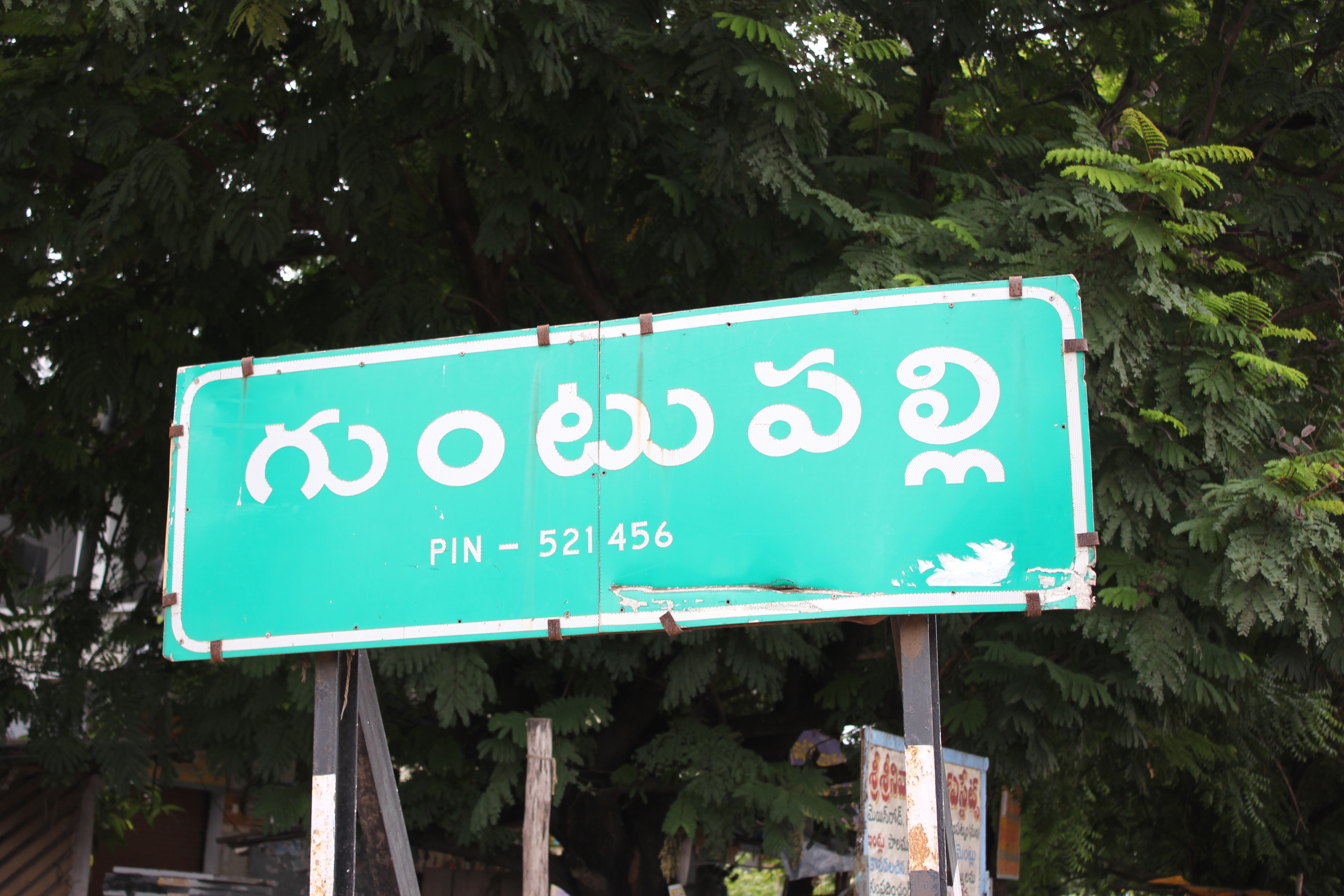 Informatory road sign in Telugu designating the location of Guntupalli (Telugu: గుంటుపల్లి, IAST: Gunṭupalli), a census town in the Ibrahimpatnam mandal of Krishna district in the south Indian state of Andhra Pradesh. Printed under the town name is Postal Index Number (PIN) 521456; the PIN for Guntupalli is 521241. This photograph was taken on 11 August 2011 (prior to the bifurcation of the state into Andhra Pradesh and Telangana) while standing adjacent to National Highway 65 (Old NH 9).